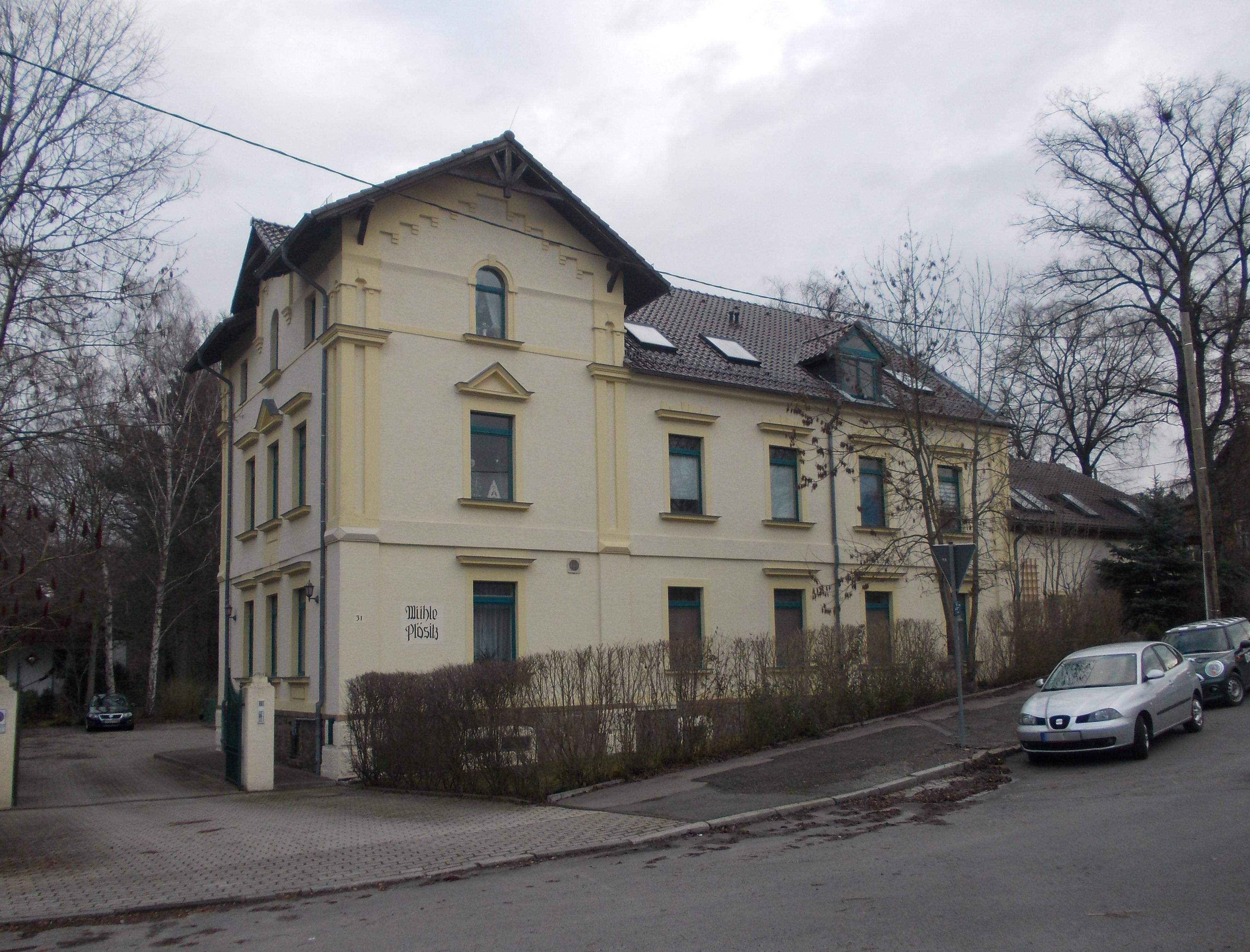 Plösitz mill (Taucha, Nordsachsen district, Saxony)